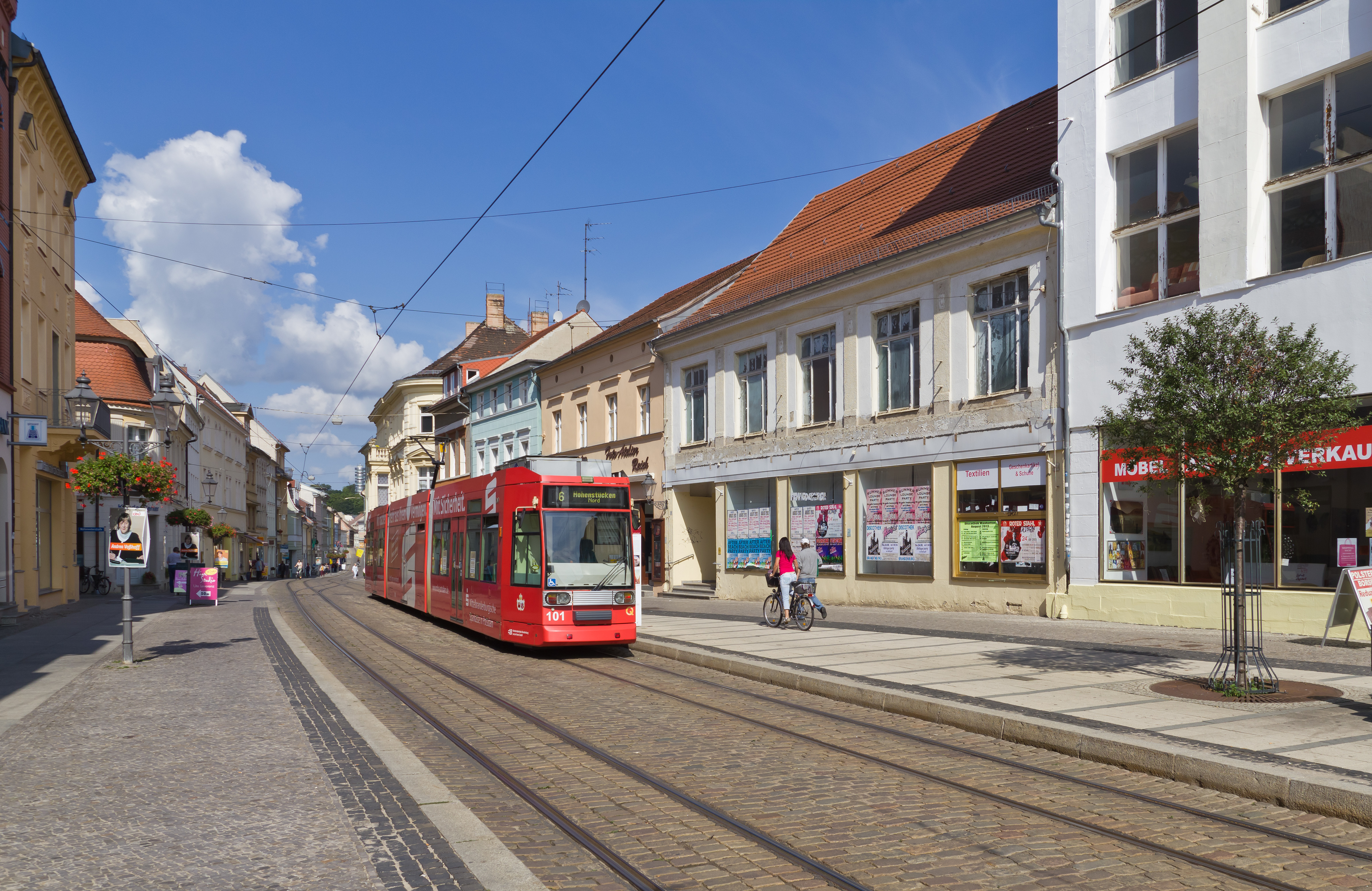 Tram in Brandenburg/Havel, Germany